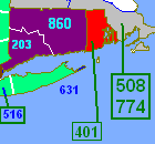 Map showing area code 401 and surrounding area.